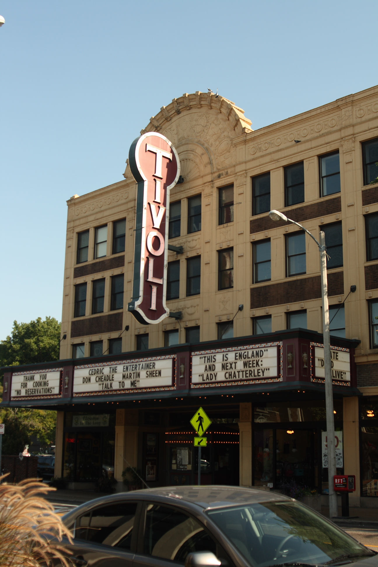 Tivoli Theater/Cinema, Delmar Loop, St Louis